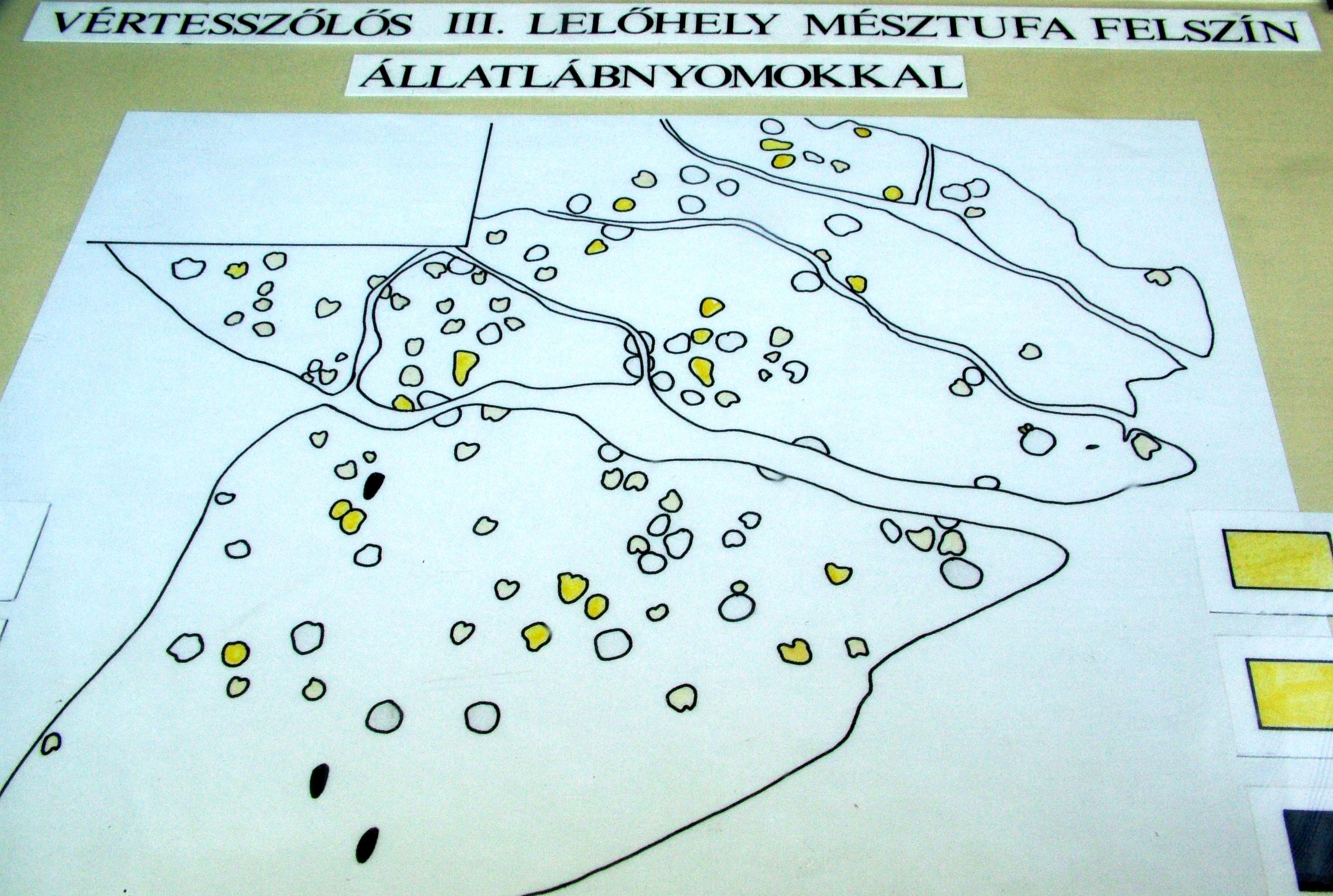 Prehistoric Animals footprints in the limestone tuff. (Presentation drawings)